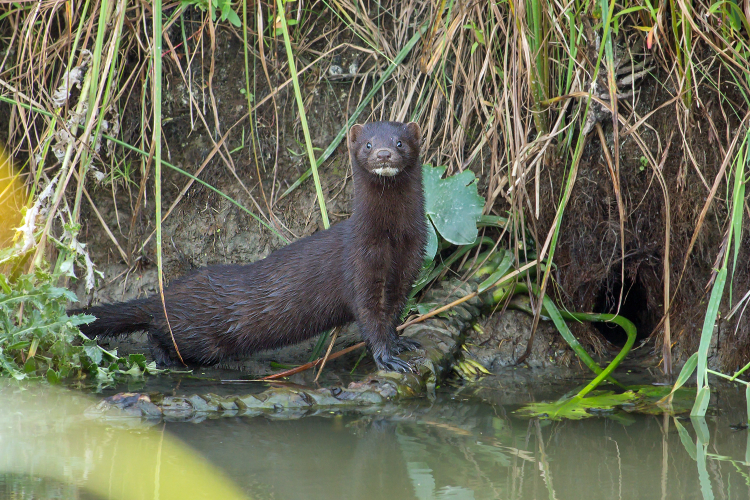 An American Mink, Neovison vison, in northern Germany (in the wild).